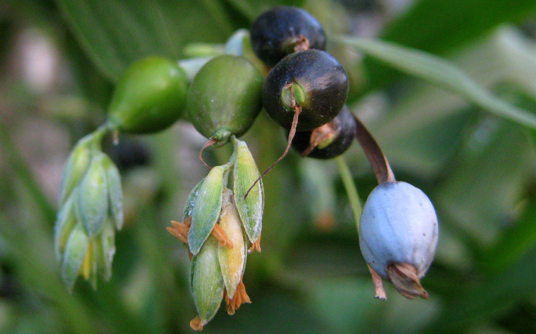 Job's Tears, മാലക്കല്ല്, പൂച്ചക്കല്ല്